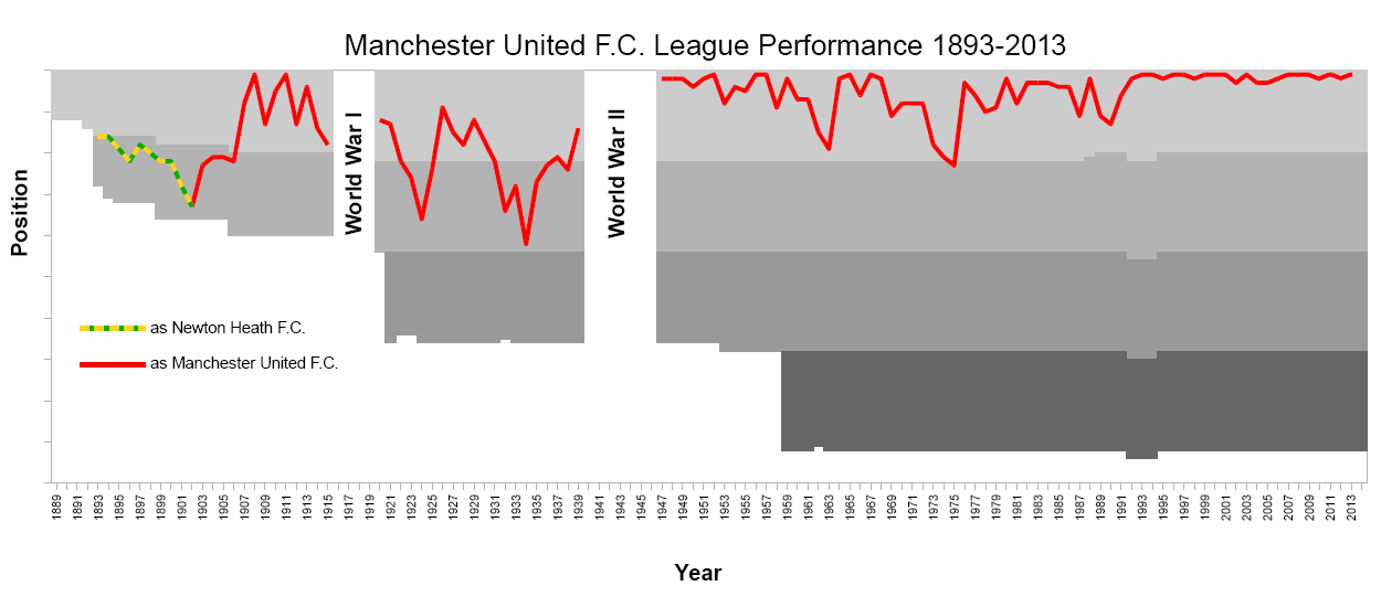 Graph showing Manchester United's performance in the English football league system from 1893 (playing as Newton Heath F.C) to 2012.